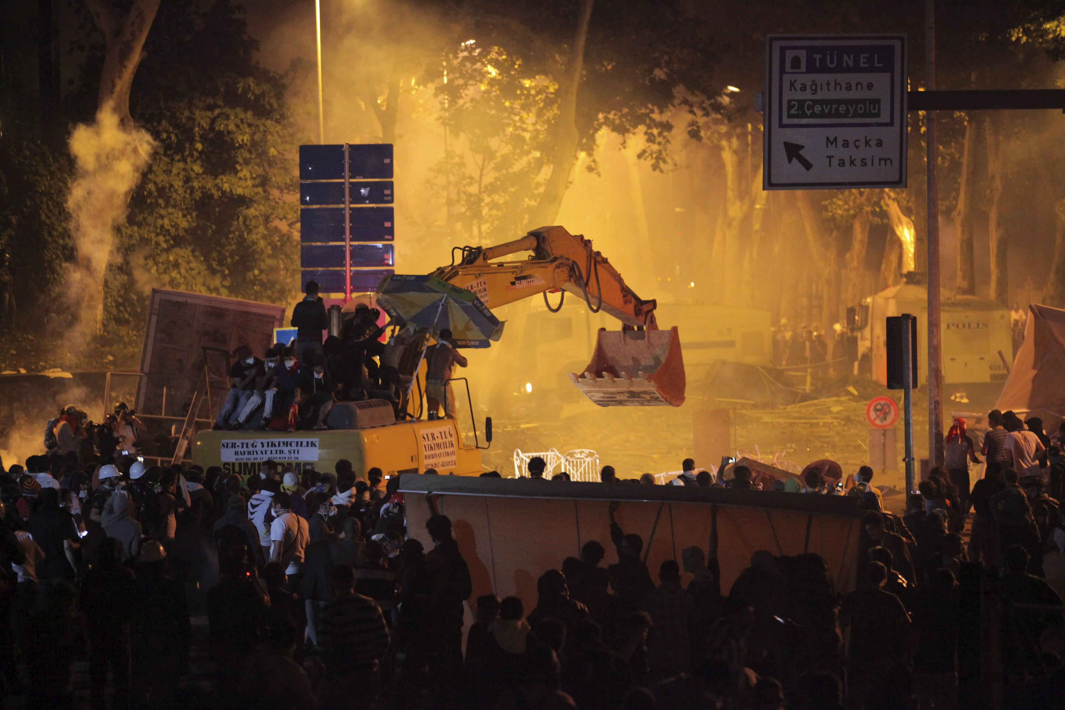 Besiktas football team supporter club Carşı members hijacked a bulldozer and chased police vehicles during Gezi protests.